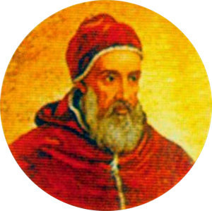 Portait of Pope Paul IV in the Basilica of Saint Paul Outside the Walls, Rome